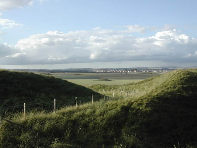 Poundbury from Maiden Castle Looking north from the western ramparts of Maiden Castle past the tumulus in SY6689 towards Poundbury.